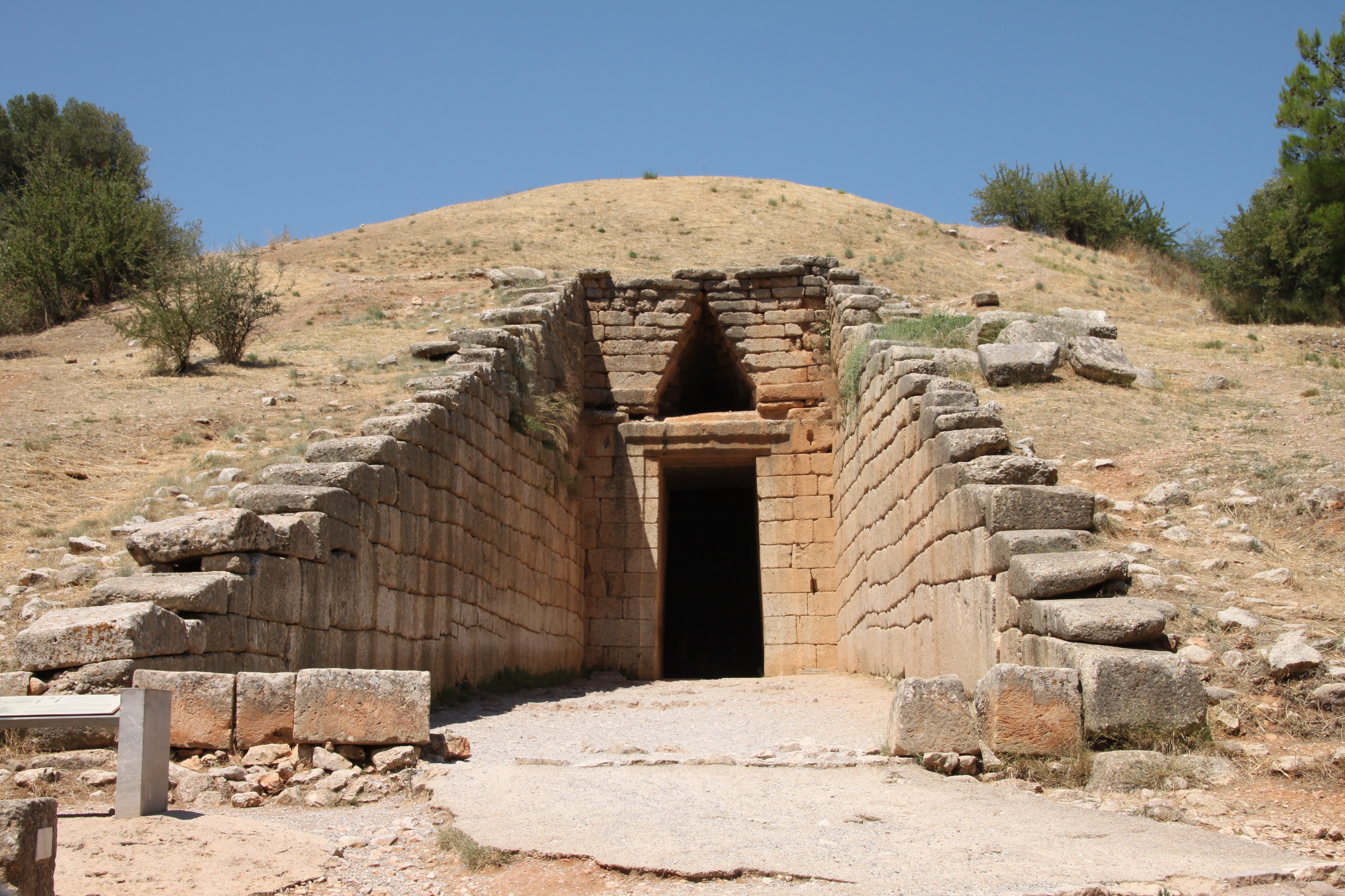 Treasury of Atreus, Mycenae, Greece Summer... vacations!